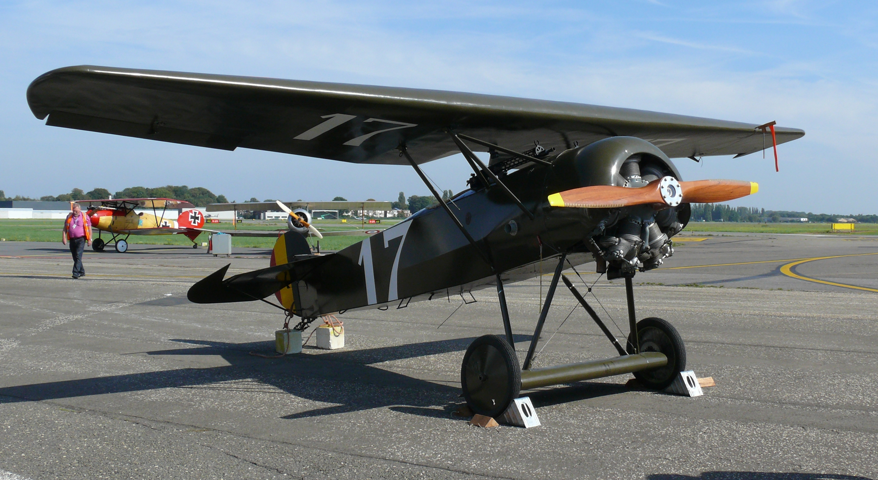 Replica of a Fokker D.VIII (N111EV; built by R & V Arganbright) of the Stampe en Vertongen Museum during Engines on the block day. It has a green colours scheme to represent a D.VIII that flew during the Olympic games of 1920 at Antwerp.